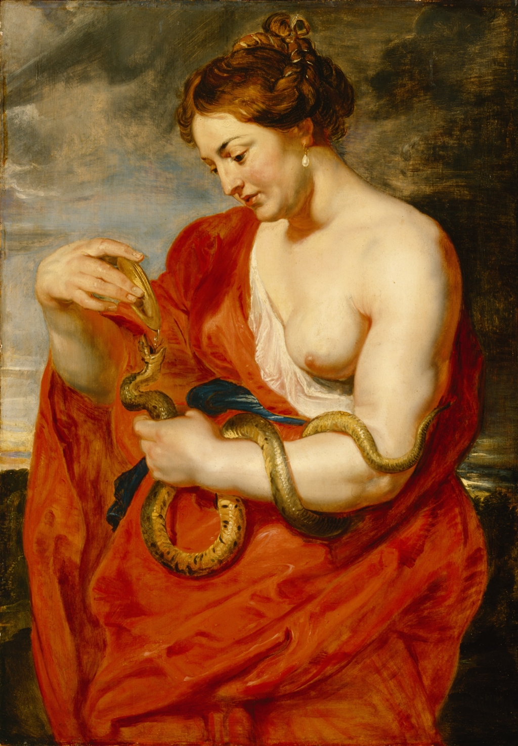 A woman feeding a snake that is wrapped around her left arm